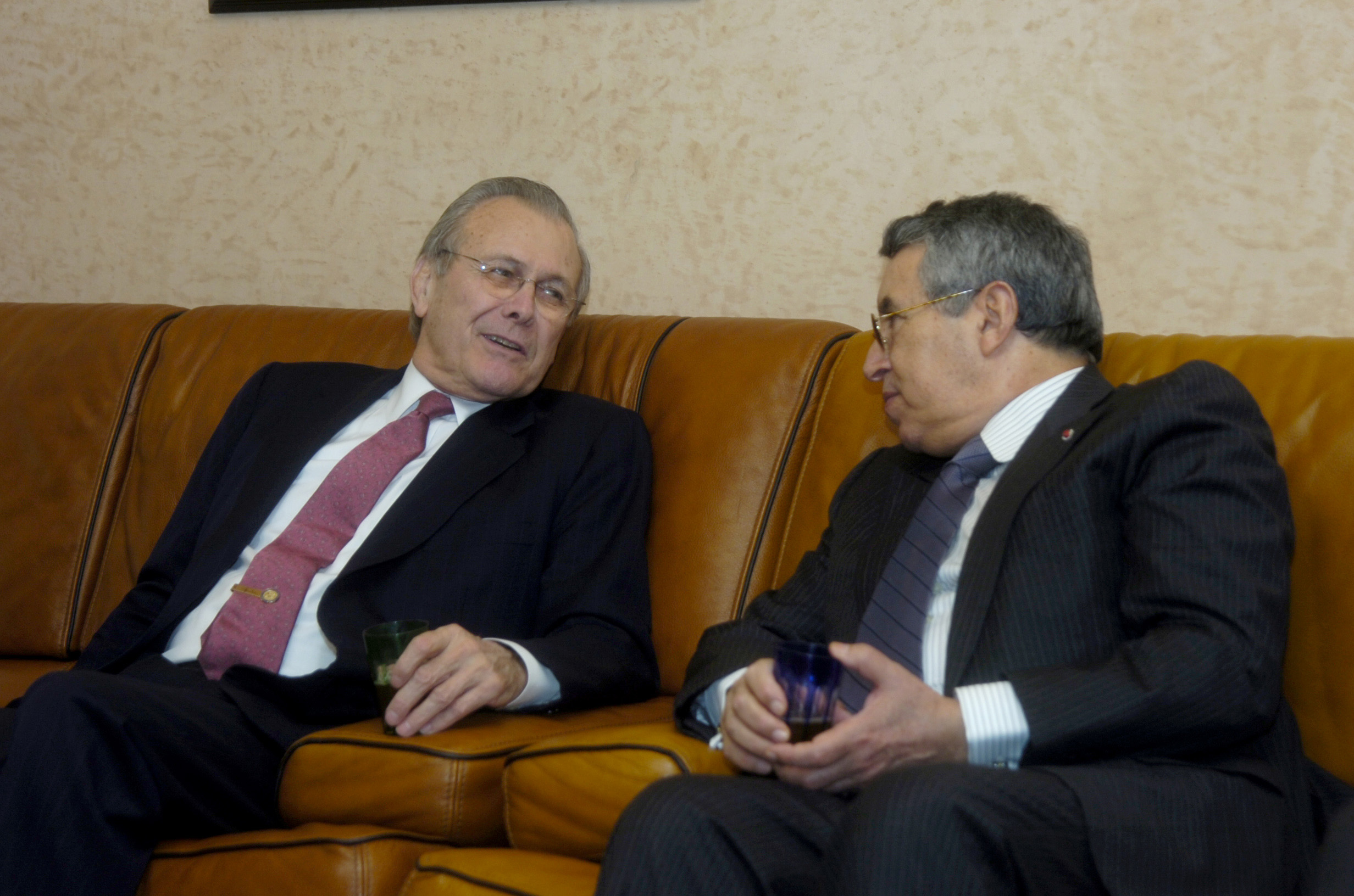 Donald Rumsfeld and Mohamed Benaissa in Rabat on February 12, 2006.